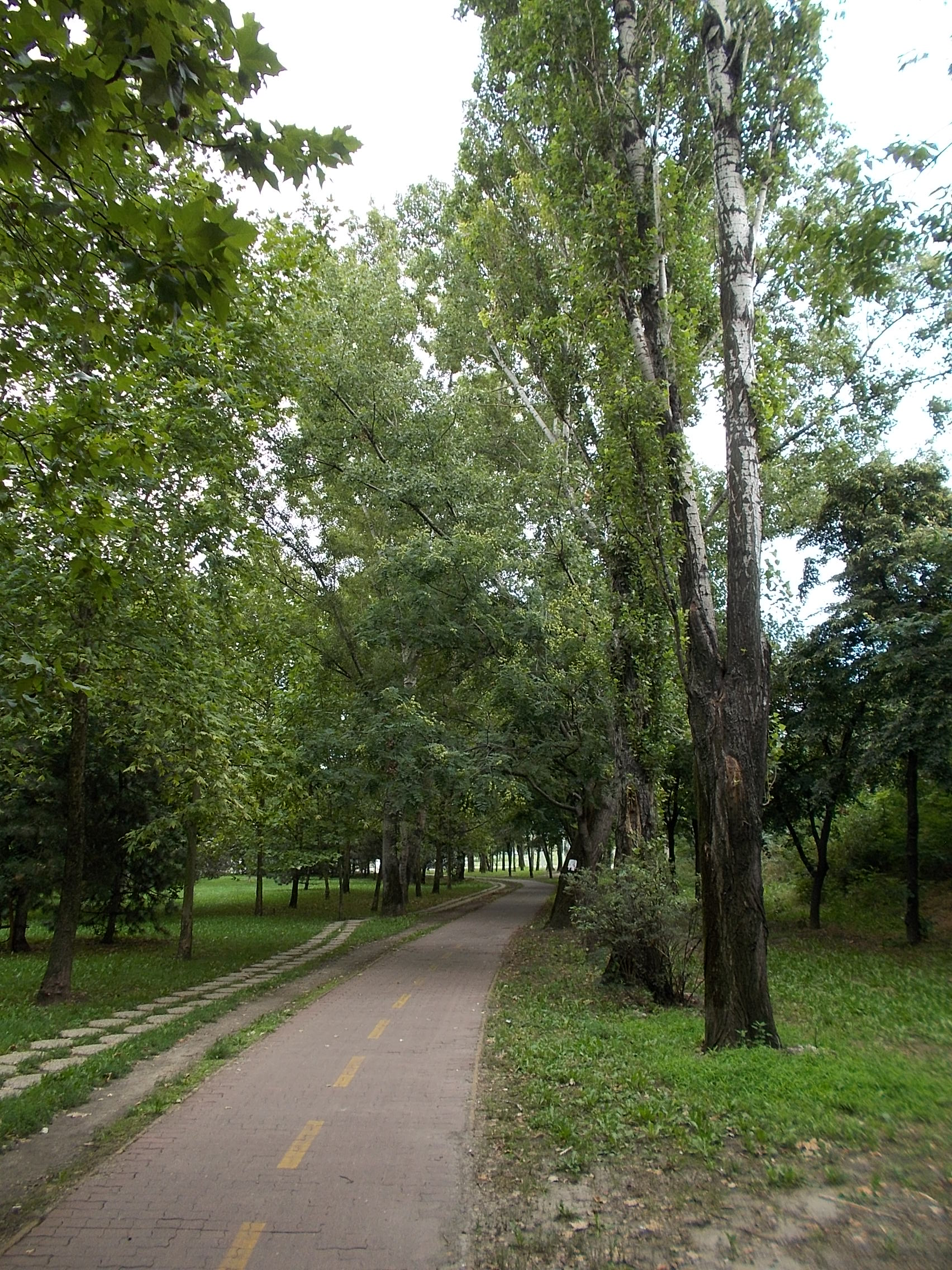 Hamzsabégi road bike paths, Budapest District XI.